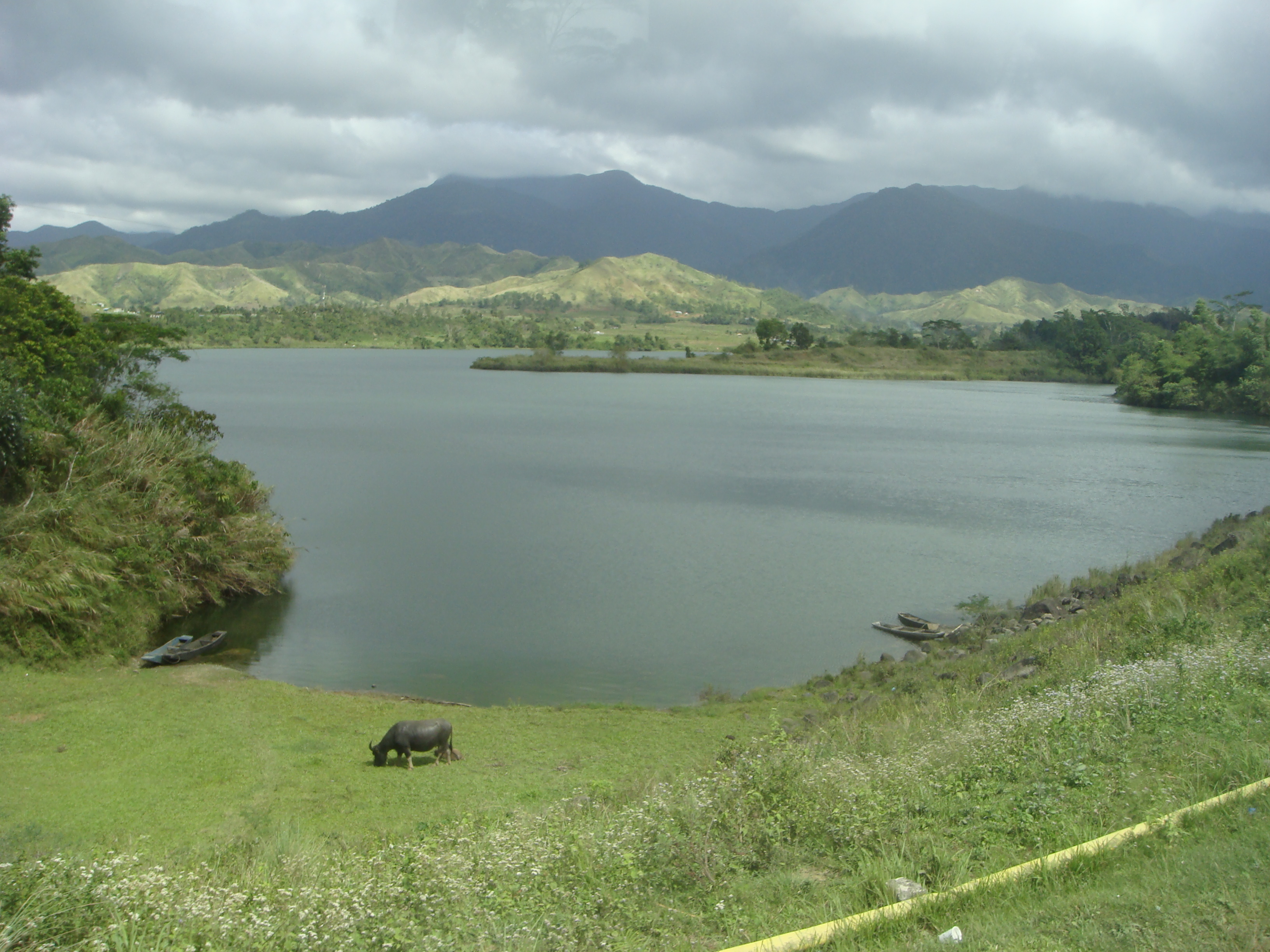 Canili and Diayo Dams and Reservoirs, Maria Aurora [1] (Manmade Structures Dams, Coordinates (WGS84) 15° 47.351N 121° 19.066E Elev: 309m)[2][3]. The four-decade old dam is a tributary of Pantabangan Dam that irrigates more than 100,000 hectares of farmlands in the provinces of Pampanga, Nueva Ecija, Tarlac and Bulacan in Central Luzon. Diayo dam, which was simultaneously built along with Pantabangan Dam in 1970s, was designed only for light vehicles. The dam has been transformed into a major part of BPR when Baler-Bongabon road, then a major road network linking Aurora to Nueva Ecija, was devastated by a series of typhoons in 2004. The Dams are situated in the deep canyons of the Canili and Diayo rivers in the Baler-Aurora basin. The confluence of the two rivers is about 800 meters downstream of the Canili damsite where it forms the Cabatangan River, which flows east to the town of Baler and empties into the Philippines Sea.[4]